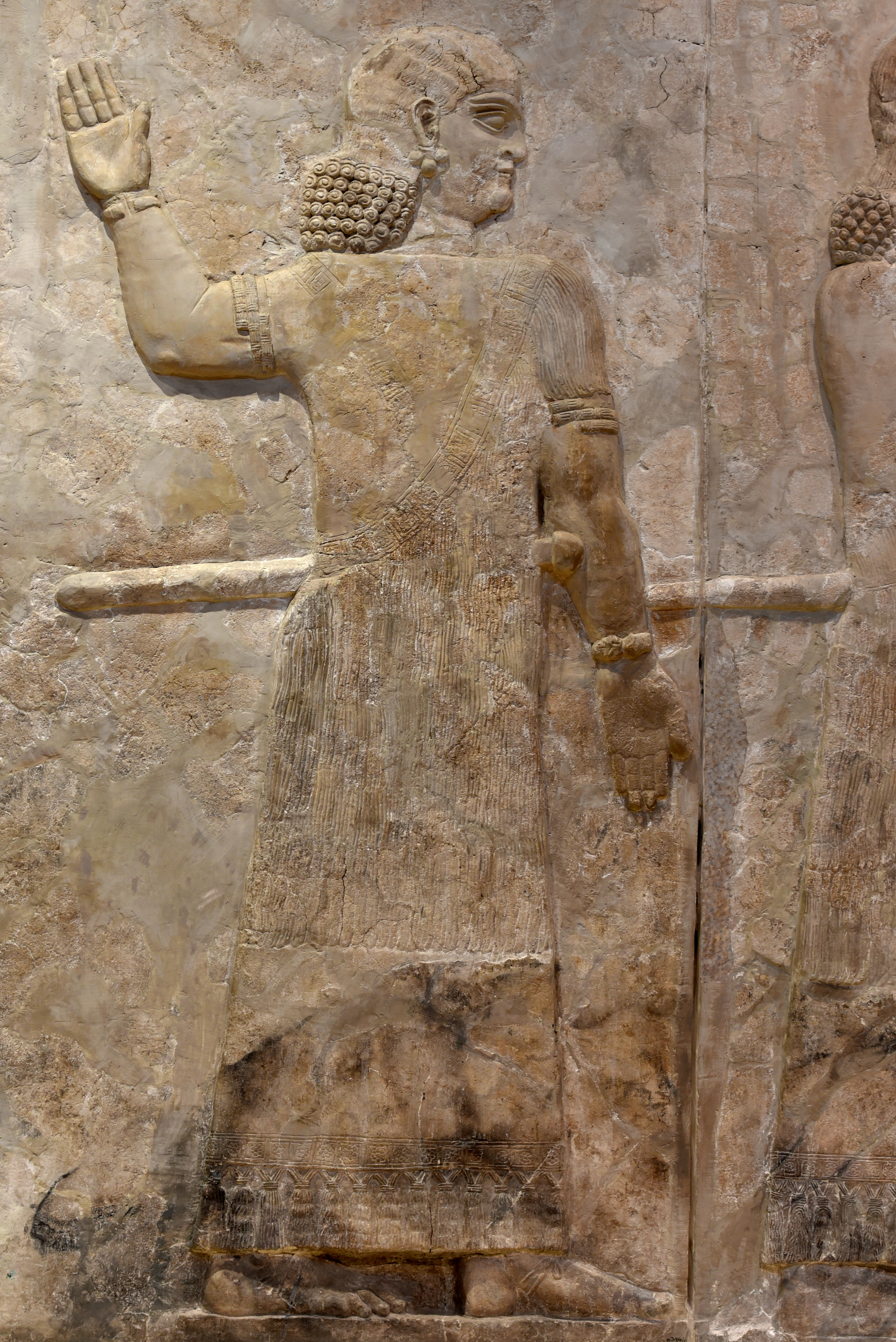 This man, distinguishable from all kinds of staff (on a long tributary scene, not shown were) is probably what we call today as the master of ceremonies; he brings up the rear of the Assyrian officials and indicates towards the tribute bearers (from Urartu) to come forward. About 3-meters high, alabaster bas-relief. From The Royal Palace of Sargon II at Khorsabad, Iraq. Circa 710 BCE. On display at the Assyrian Gallery of the Iraq Museum in Baghdad, Iraq.